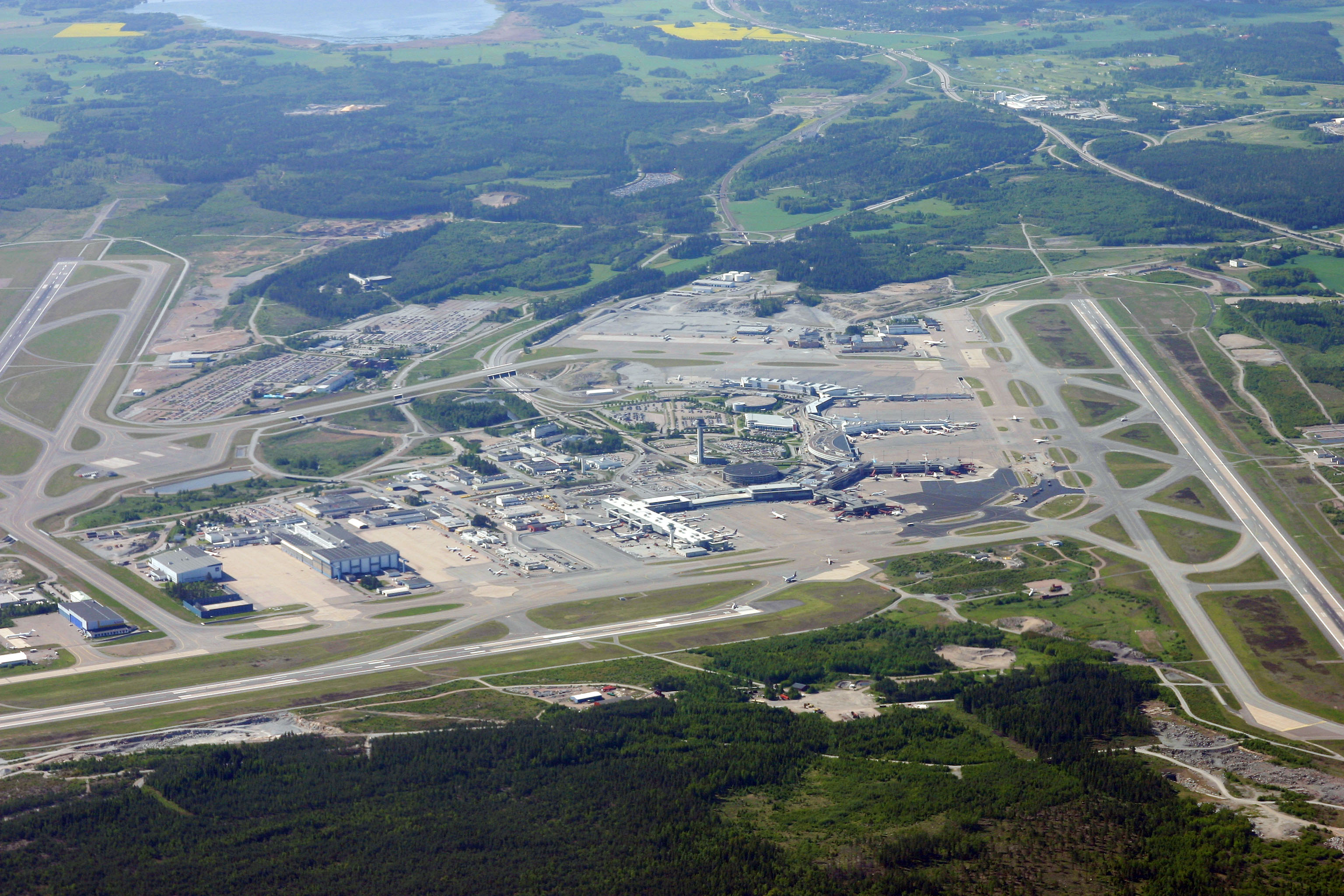 Overview of Stockholm Arlanda Airport from north